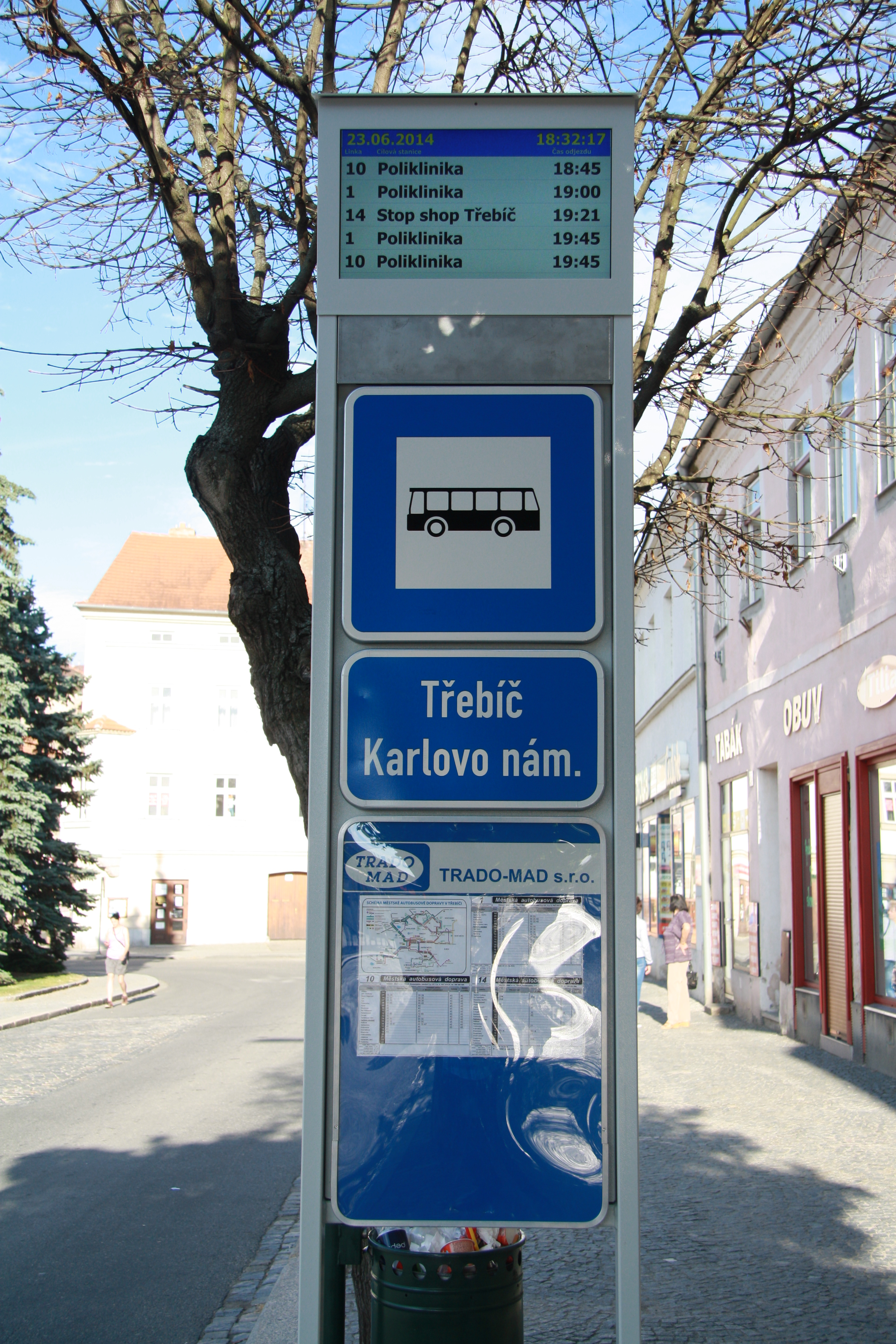 New bus stop sign with online display in Karlovo náměstí, Třebíč, Czech Republic.